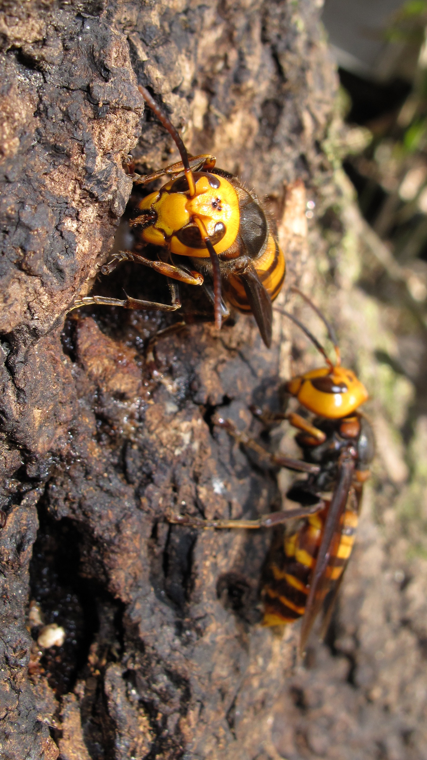 female Vespa mandarinia japonica